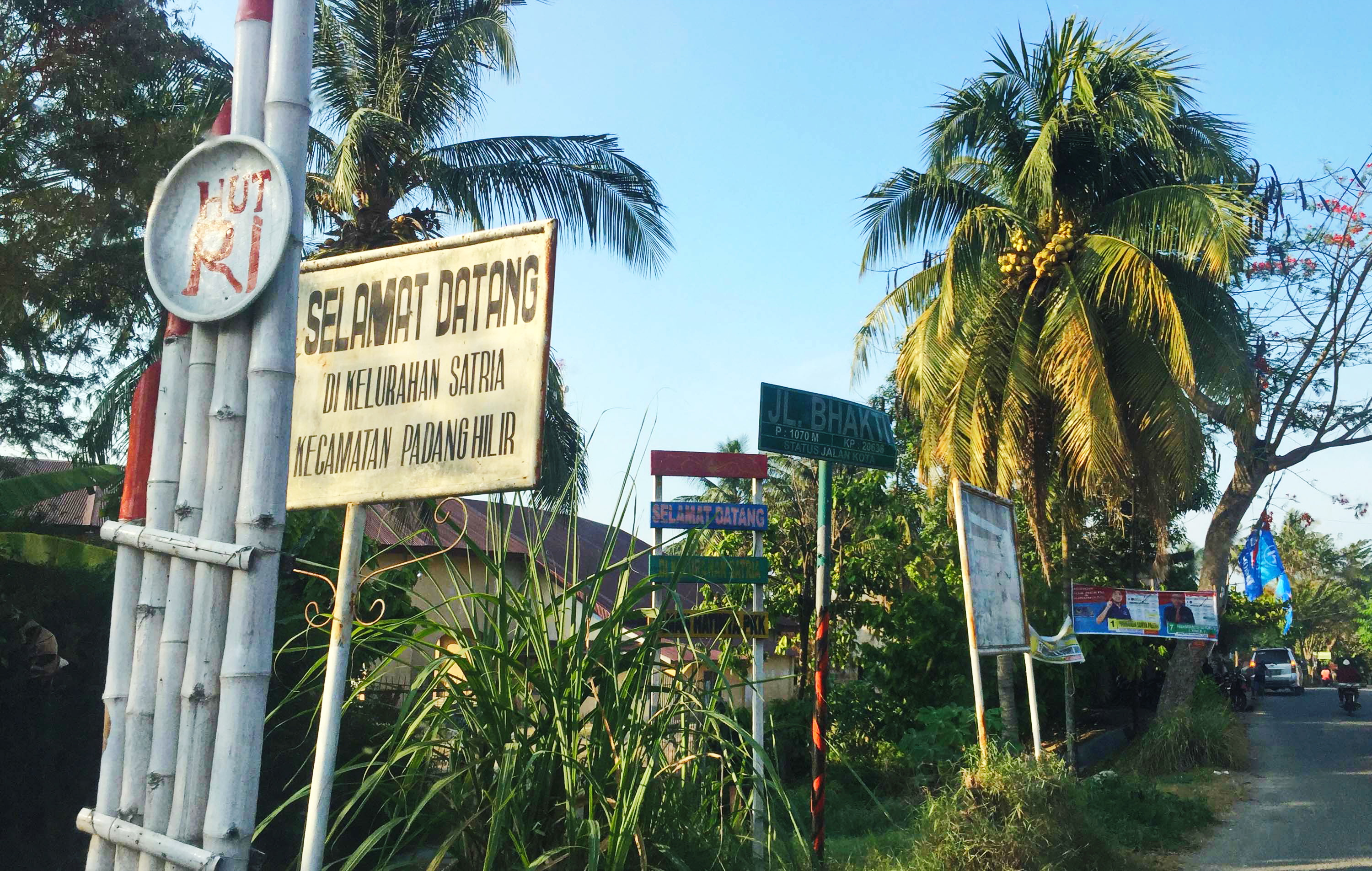 Welcome gate to Satria, Padang Hilir, Tebing Tinggi